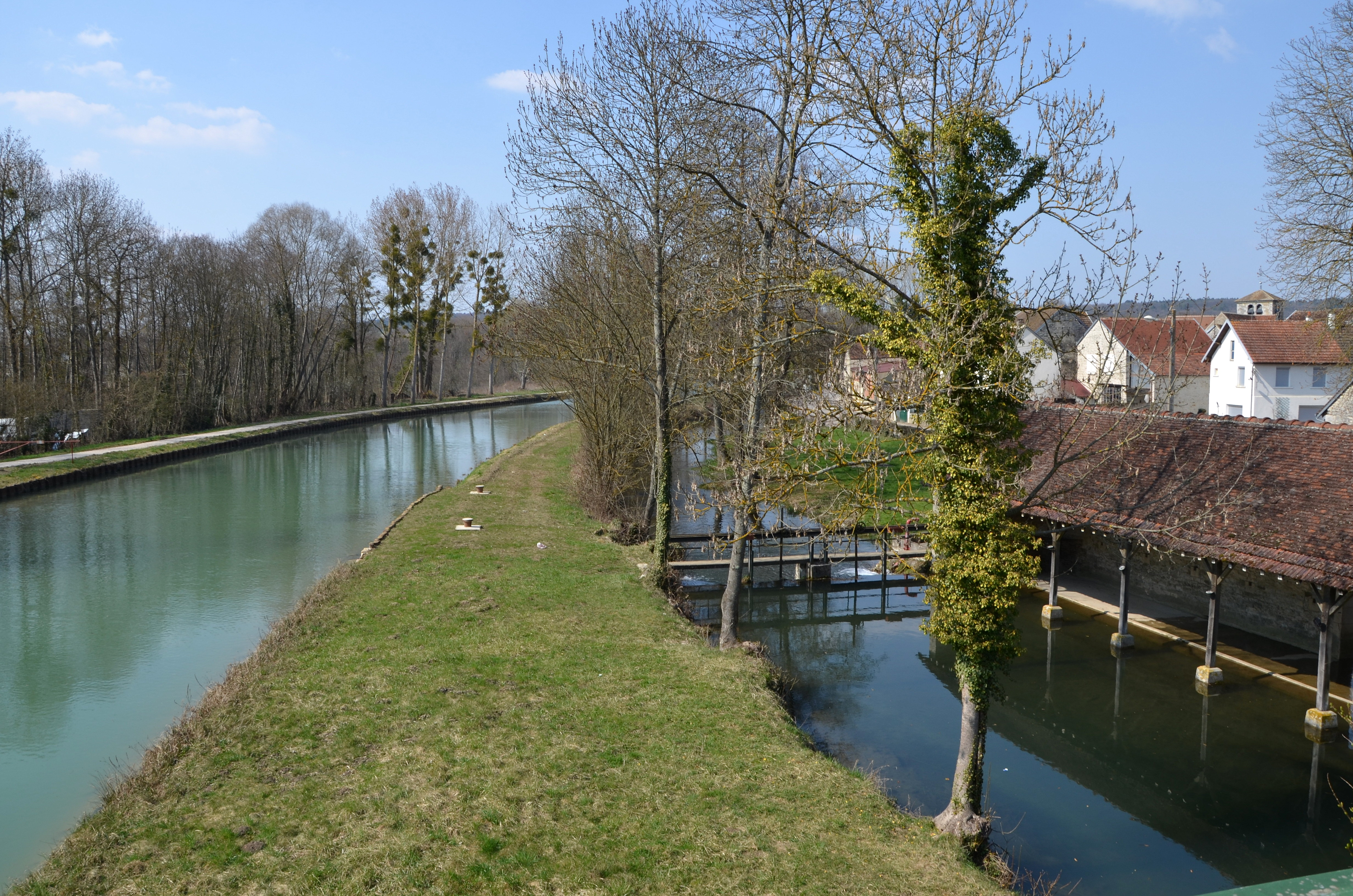 commune of Tanlay, Yonne, Bourgogne, France. Canal of Burgundy on the left, on the right the channel coming from the castle of Tanlay, here at the wash-house in Commissey. The Armançon river is on the left behind the road that closely follows the canal - we can see a lorry passing by on that road, grey trailer and white tractor. View from the bridge over the Armançon river, the canal and the channel.